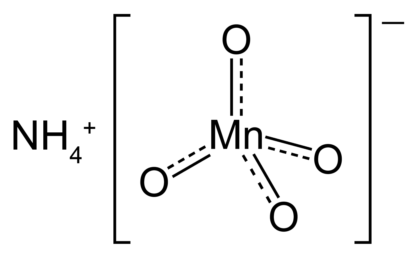 Chemical diagram of Ammonium permanganate